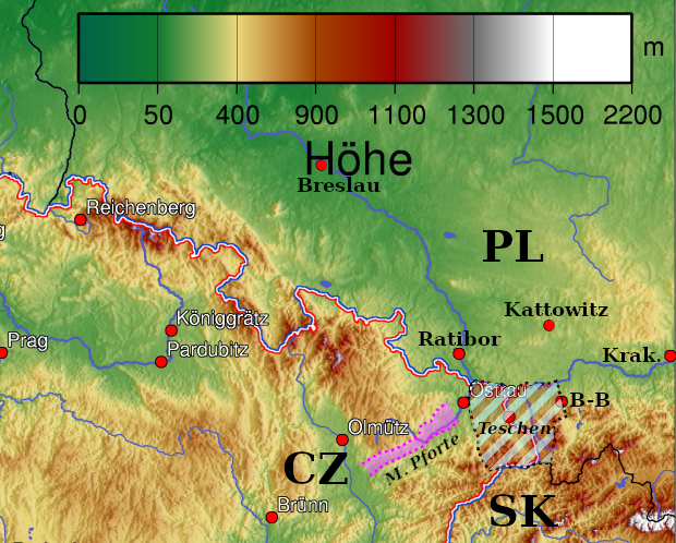 Teschen Silesia (black dotted line) in relation to the Moravian Gate (pink dotted line) and to other important cities in Poland (PL), Czech Republic (CZ) and Slovakia (SK), based on File:Czech Republic-Poland border (topographic).JPG